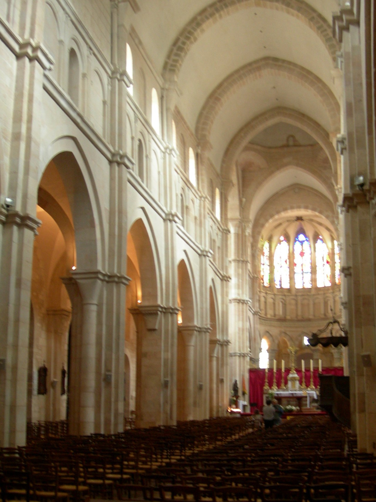 Beaune (F) cathedral interior